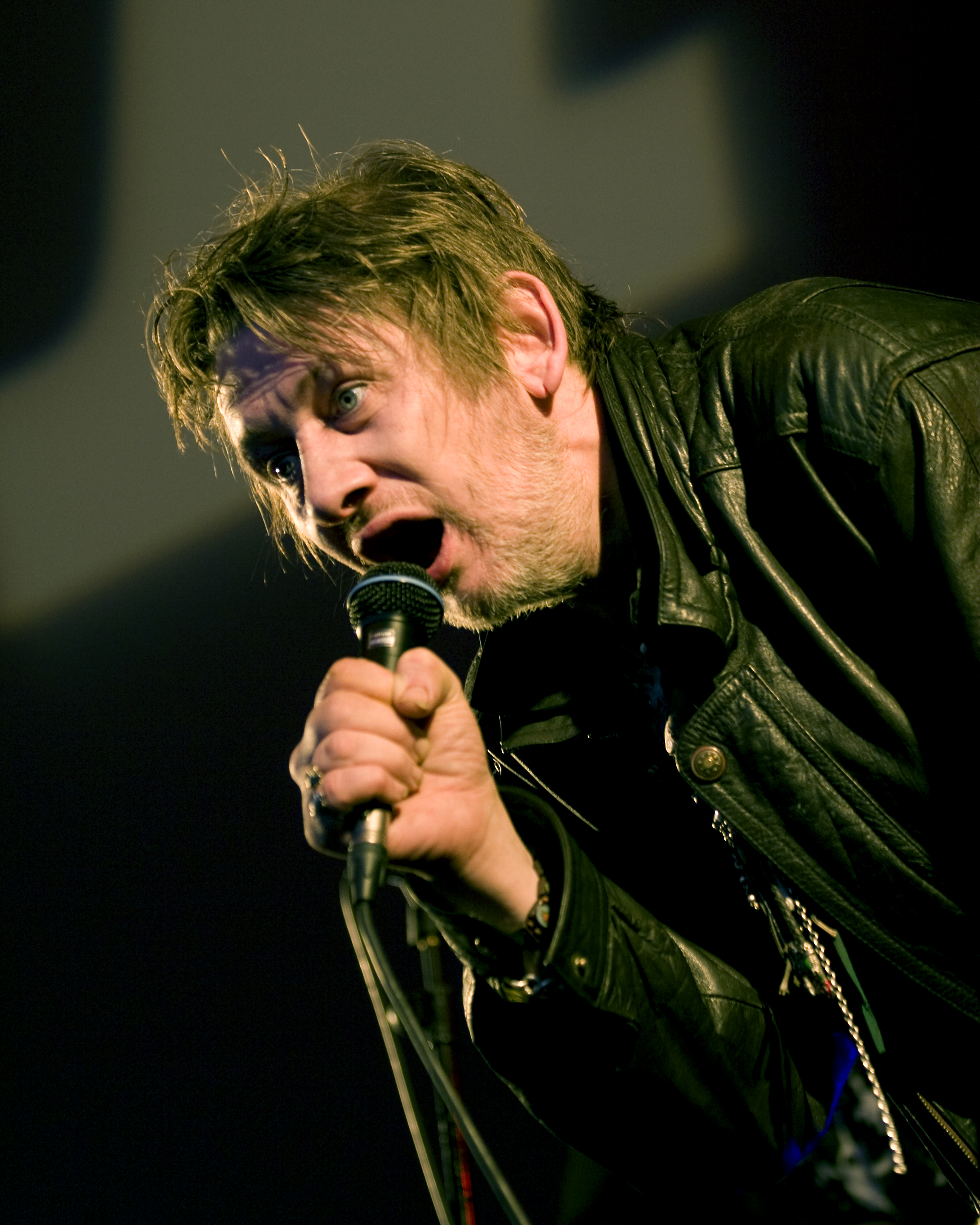 Hal Willner’s Rogue’s Gallery. Pirate Ballads, Sea Songs and Chanteys. Analog Festival Dublin - July 18th-20th .